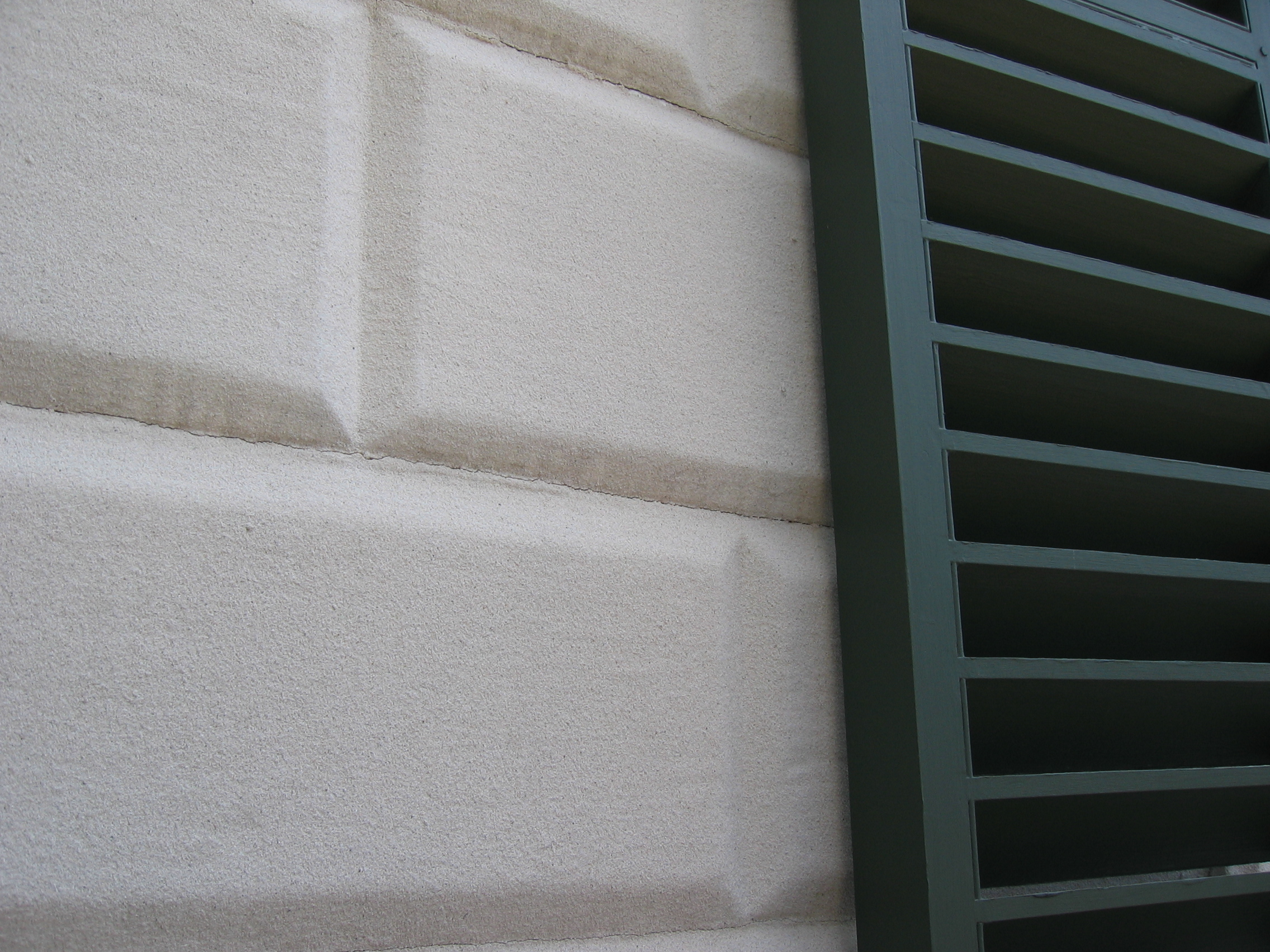 An example of rustication on the outside of the mansion at Mount Vernon.